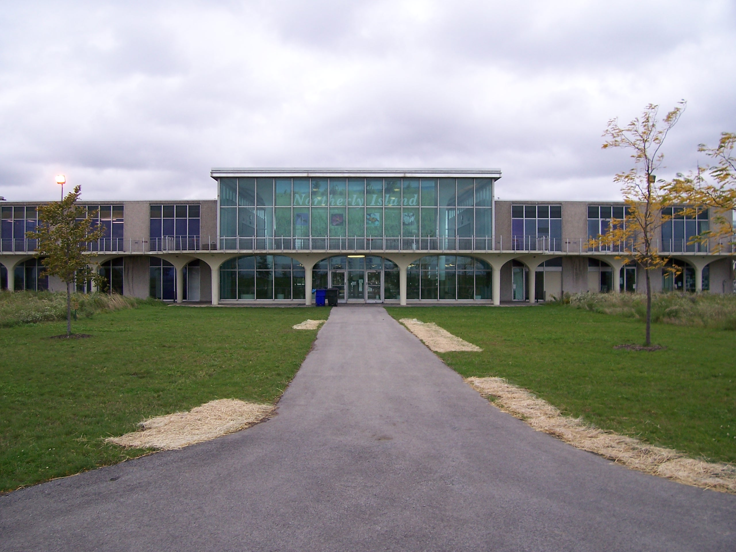 Terminal of the former Merrill C. Meigs Field Airport in Chicago